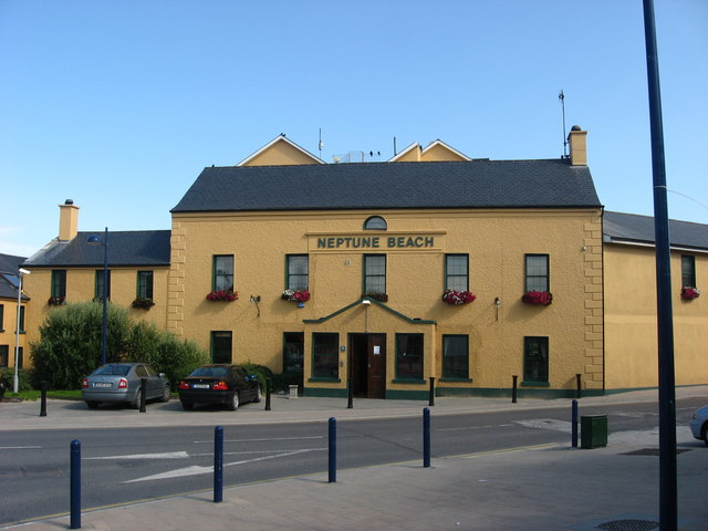 Neptune Hotel, Bettystown, County Meath, Ireland. Bettystown village grew around this mid-18th century house originally called 'Marino'. Renamed Neptune Lodge, it was a hotel by the 1840s. Substantially rebuilt, it reopened c. 1999 as the Neptune Beach Hotel.